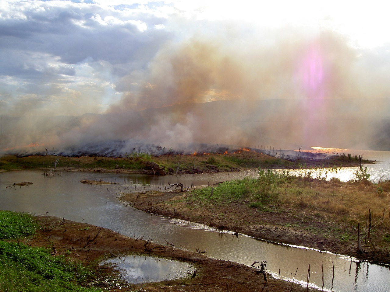 Slash-and-burn farming technique.